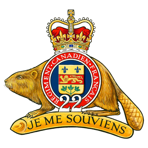 Badge of the Royal 22nd Regiment ("the Van-Doos")